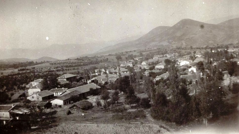 Furka, Macedonia, 1931 This media file is produced by Wikipedian in Residence in Category:Wikipedian in Residence at DARM in 2016.